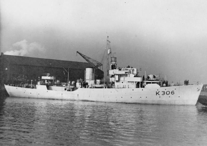 HMS Bugloss Alongside a jetty.